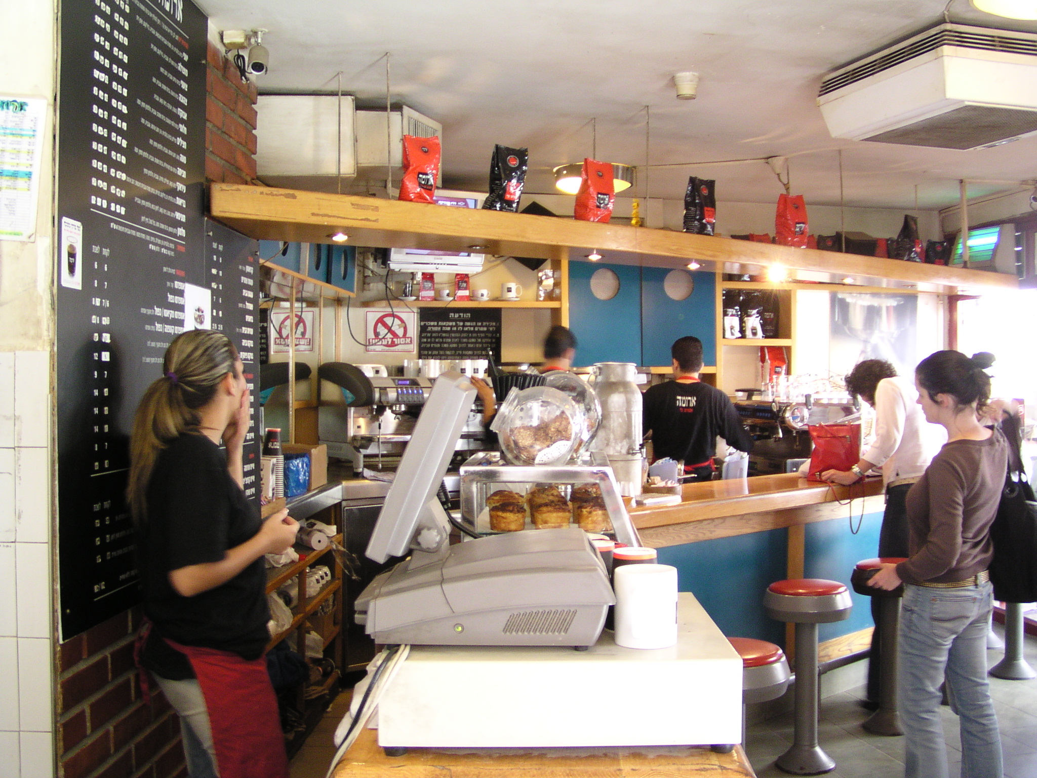 Aroma coffee shop on Hilel Street, Jerusalem, Israel. In the image, the point-of-sale is seen. Aroma is a self-service establishment. This is Aroma's (Israeli chain of coffee shops) first shop.